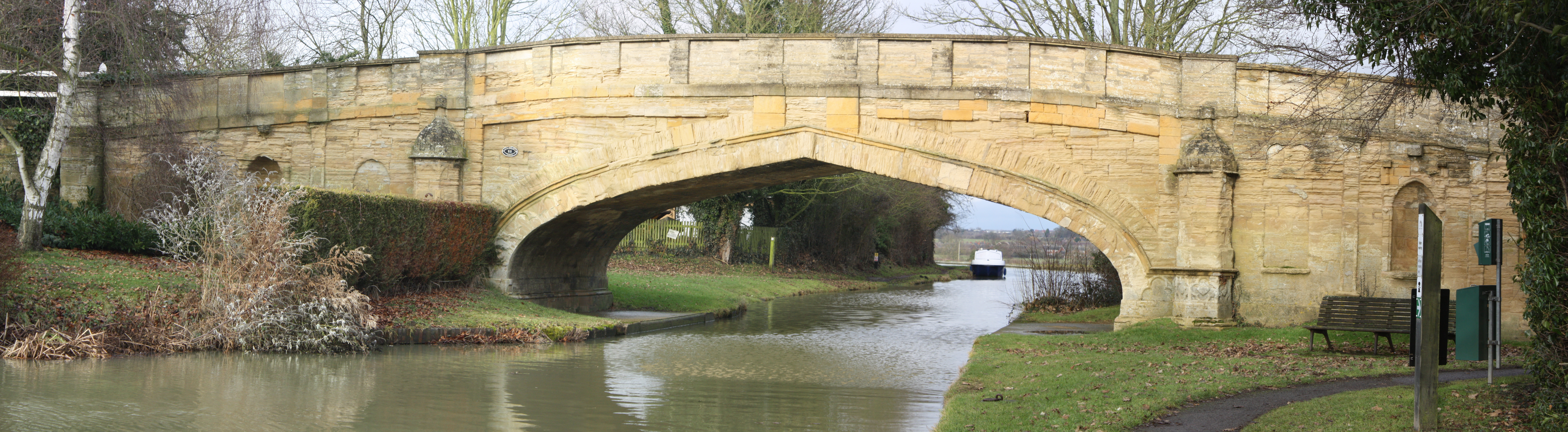 Ornamental bridge over the Grand Union Canal at Cosgrove, Northamptonshire, England